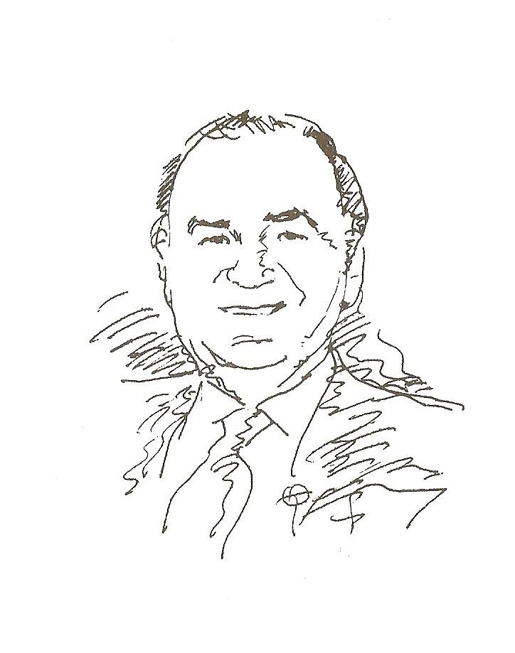 Branko Mikasinovich. Drawing by Zoran Tucić used in the book of interviews, Razgovori (Conversations, 1999), by Dejan Stojanović.